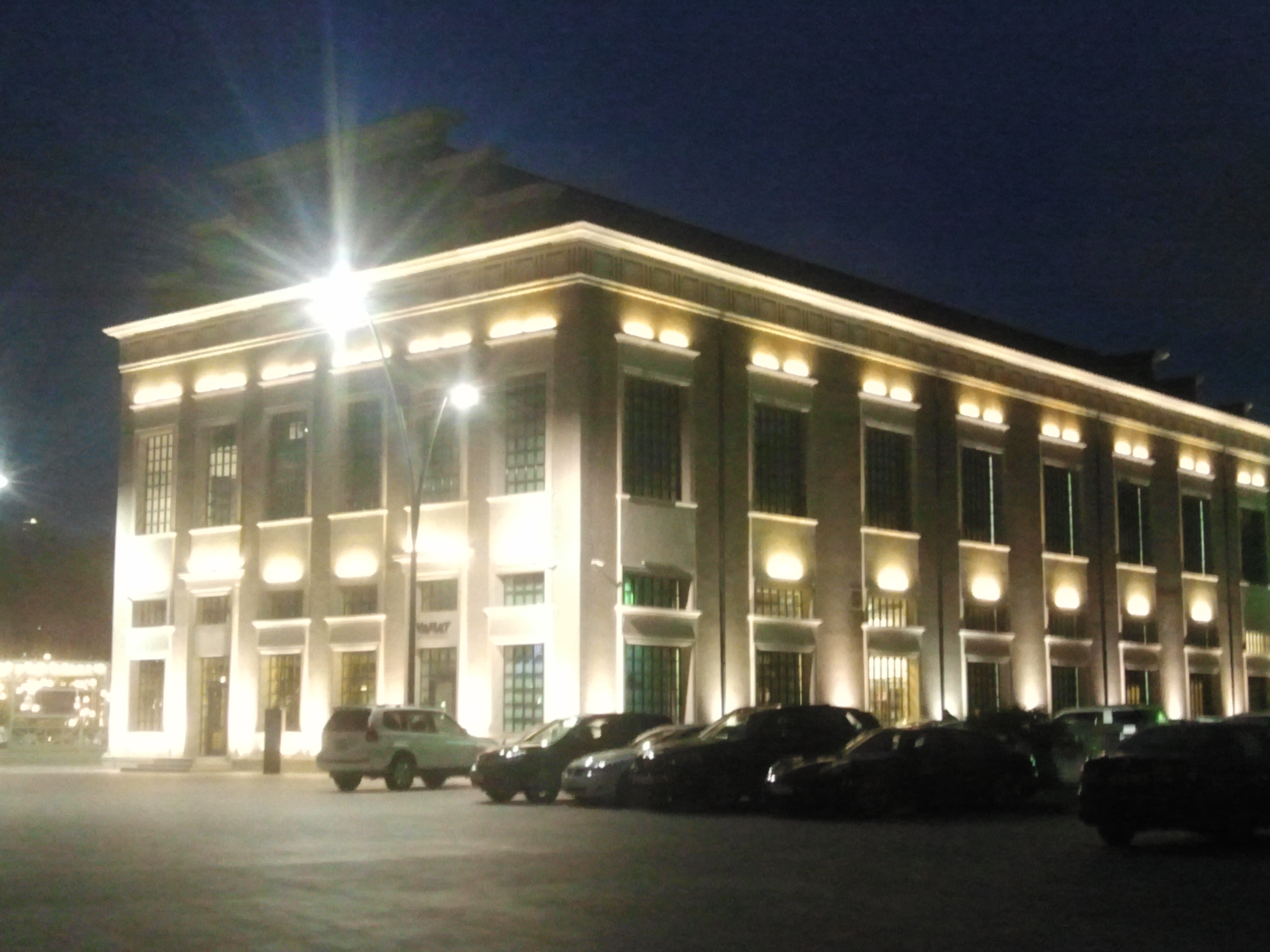 Yarat! Contemporary Art Space